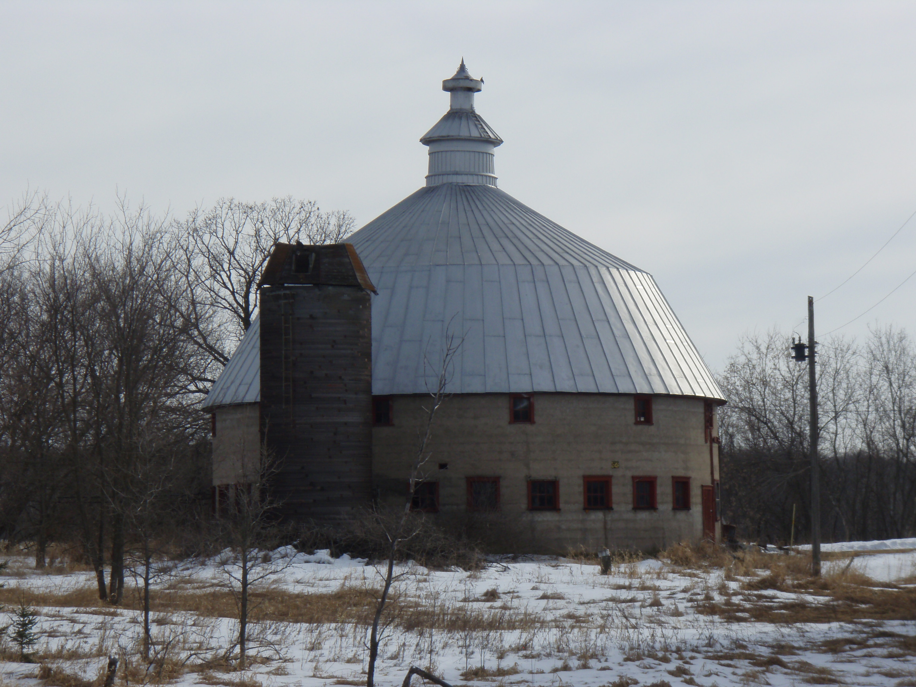 Linden Barn in Isanti, Minnesota, listed on the National Register of Historic Places.